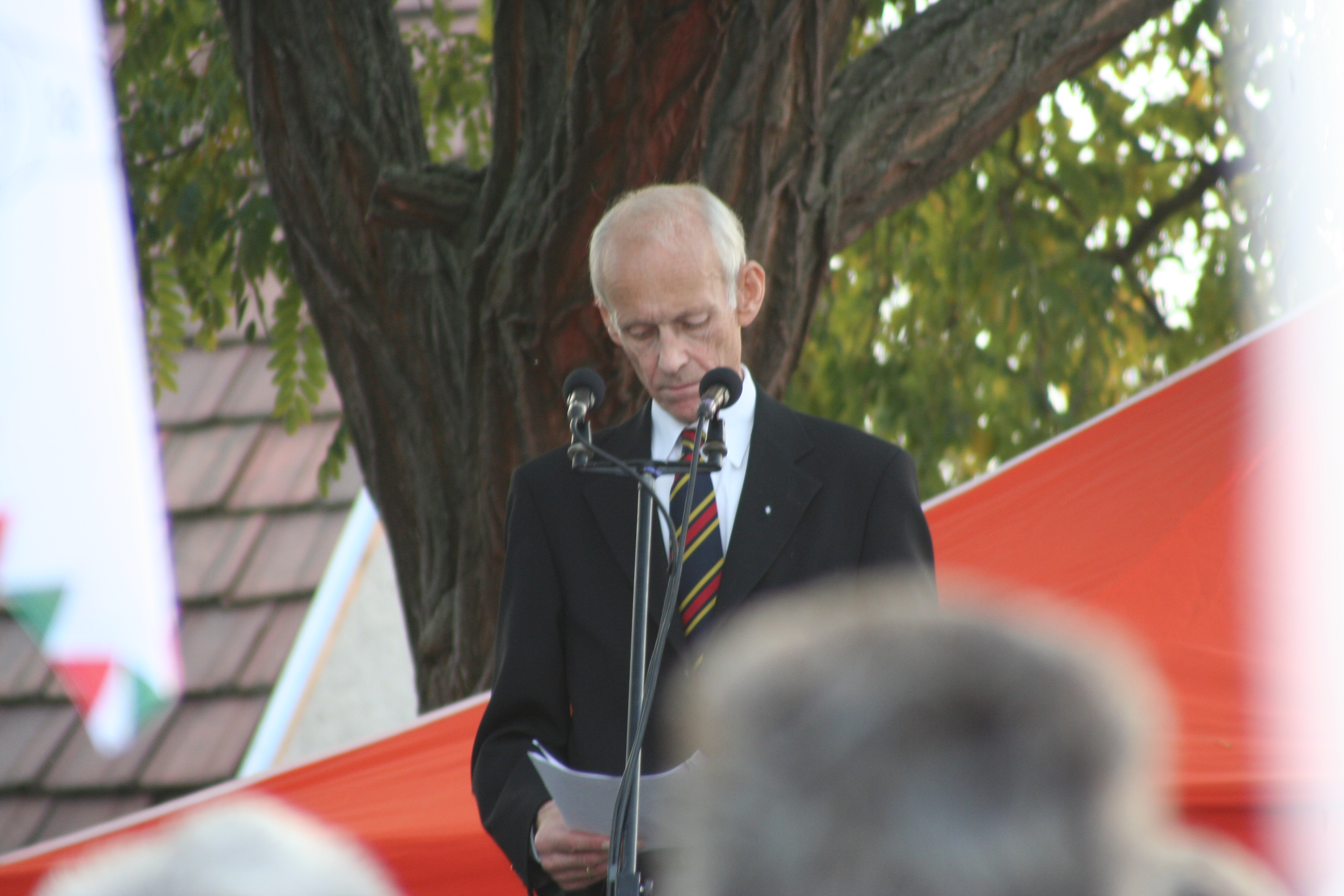 Wilhelm von Gottberg at the Gloria Victis Memorial